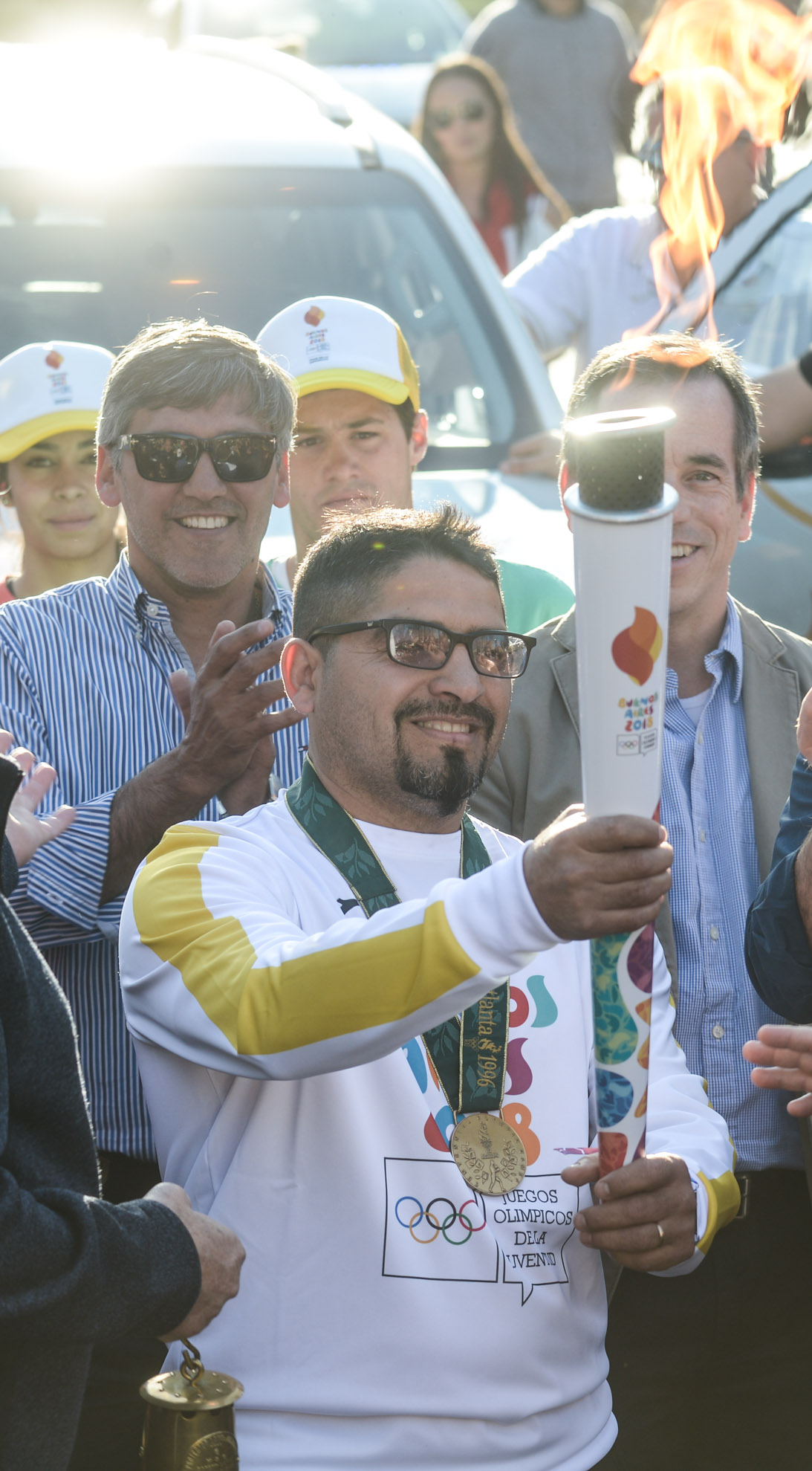 Pablo Chacón carrying the 2018 Summer Youth Olympics torch during the torch relay in Mendoza. He is wearing his 1996 Summer Olympics bronze medal.